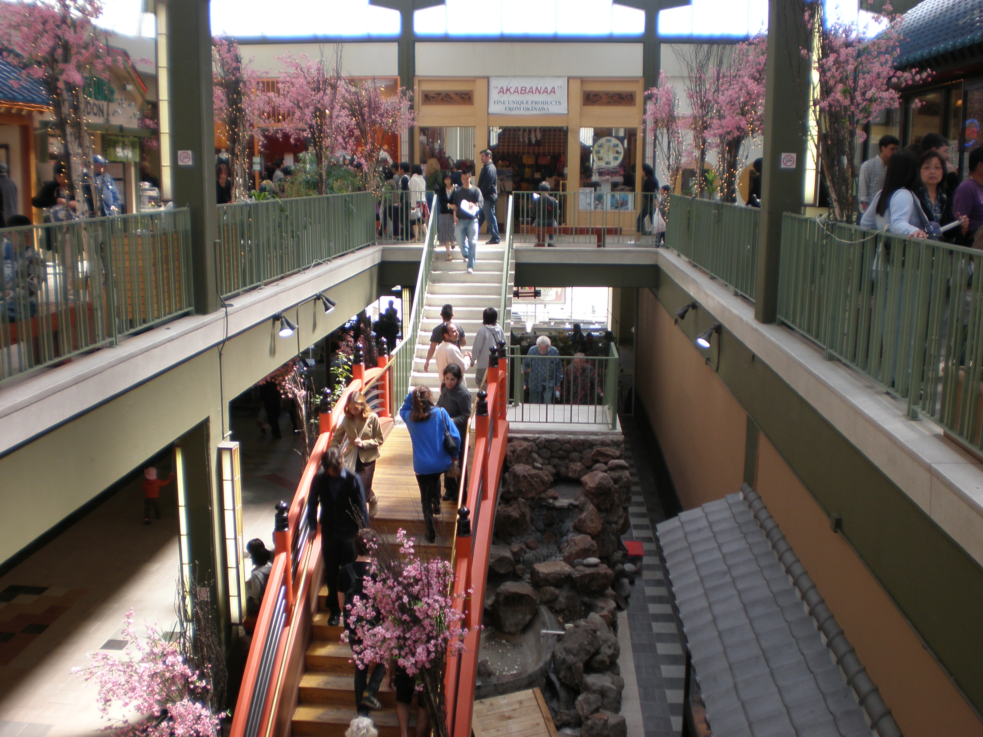 The interior of the Miyako Mall in the Japan Center, Japantown, San Francisco.